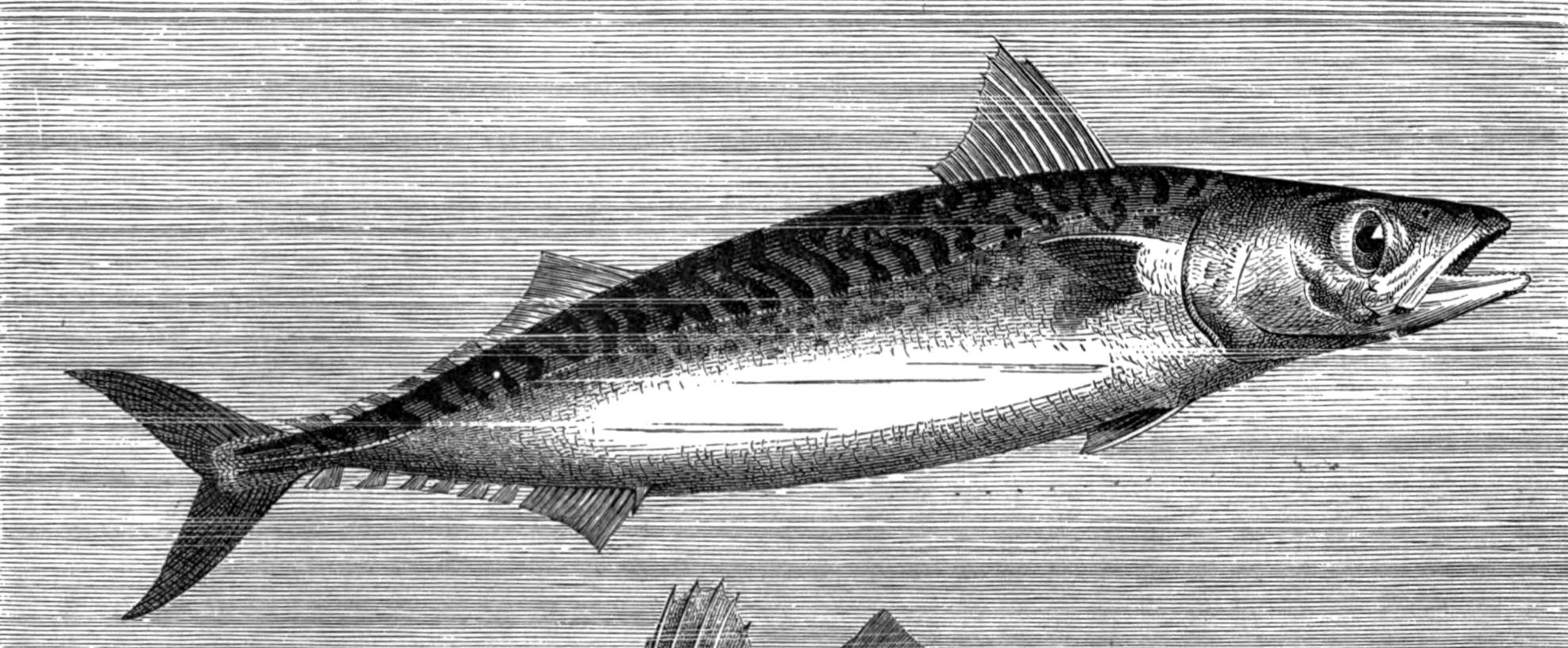 Scomber scombrus